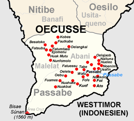 The subdistrict of Passabe, district Oecusse, East Timor